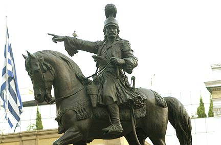 Equestrian statue of Kolokotronis in Old Parliament Square in Stadiou Ave. in Athens. Work of sculptor Lazaros Sochos (1862 - 1911)